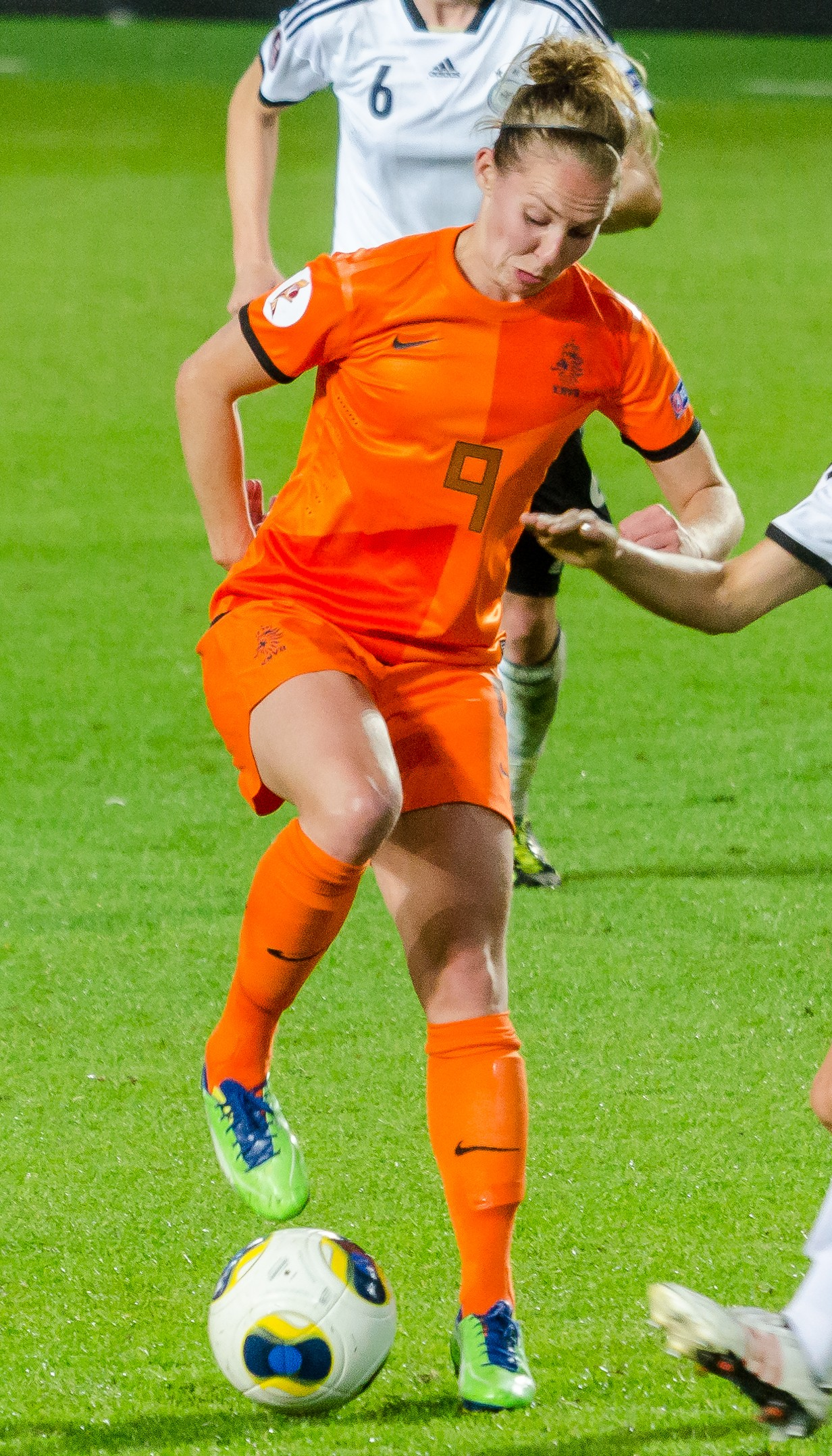 Dutch striker Manon Melis playing the team's first game of the UEFA Women's Euro 2013, 0-0 against Germany in Växjö.